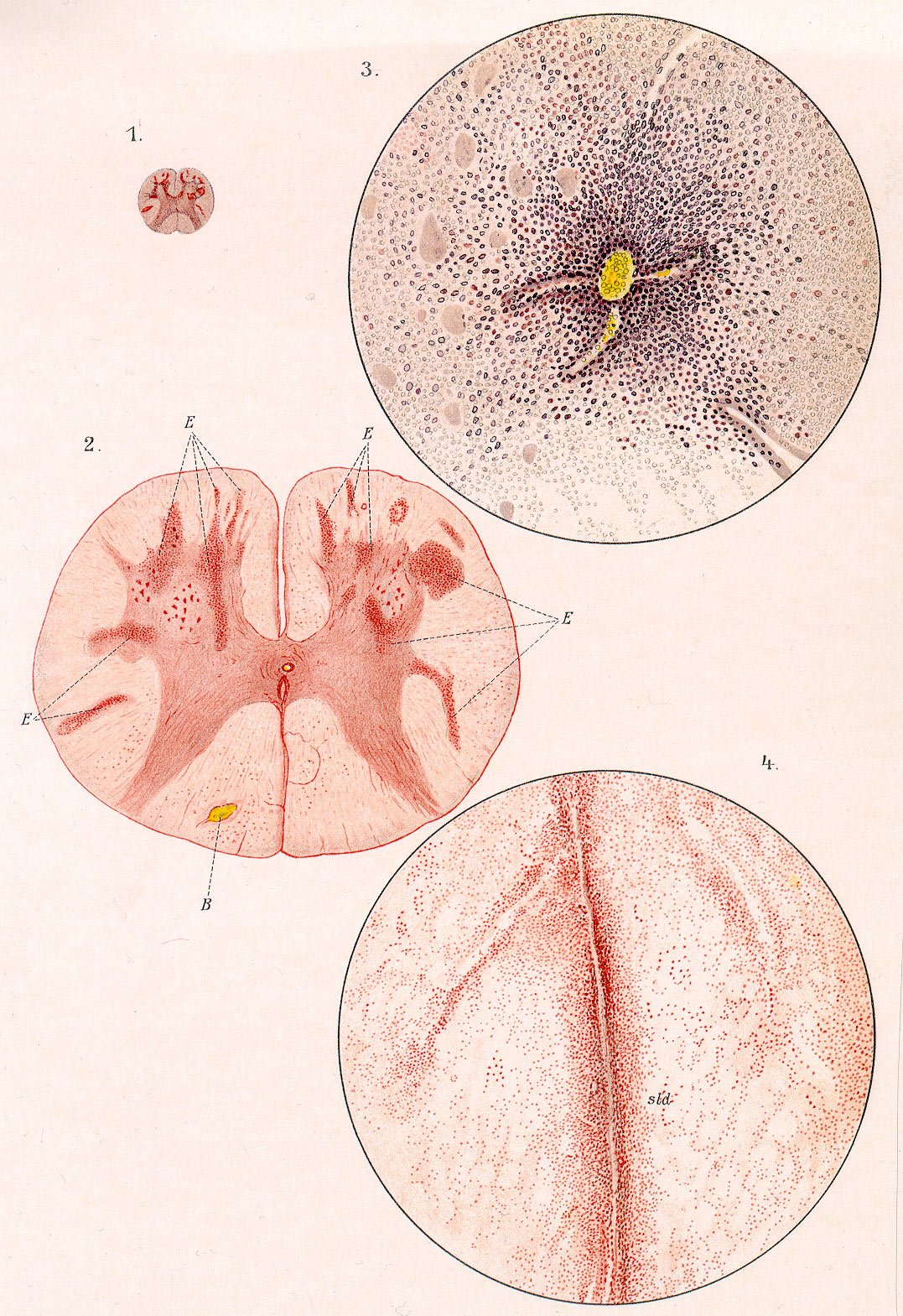 Spinal Cord Lesions Caused by a Blood-borne Agent (Smallpox-Virus), see [1]